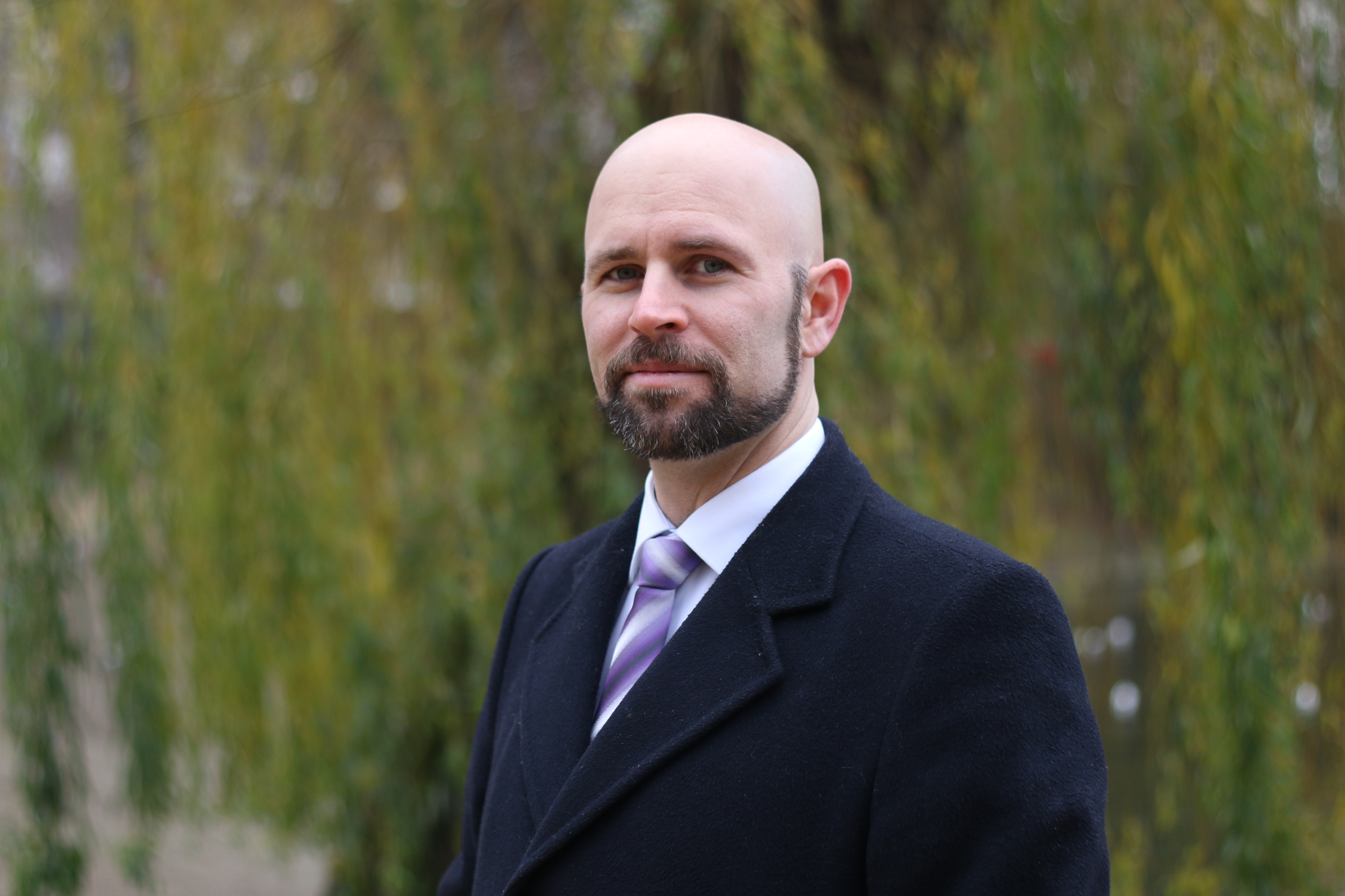 Press photo of Mattias Bjärnemalm.